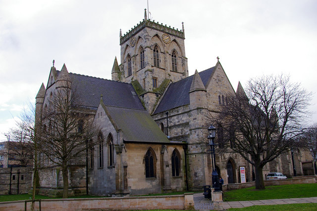 Photograph of the Parish Church of St. James, Grimsby